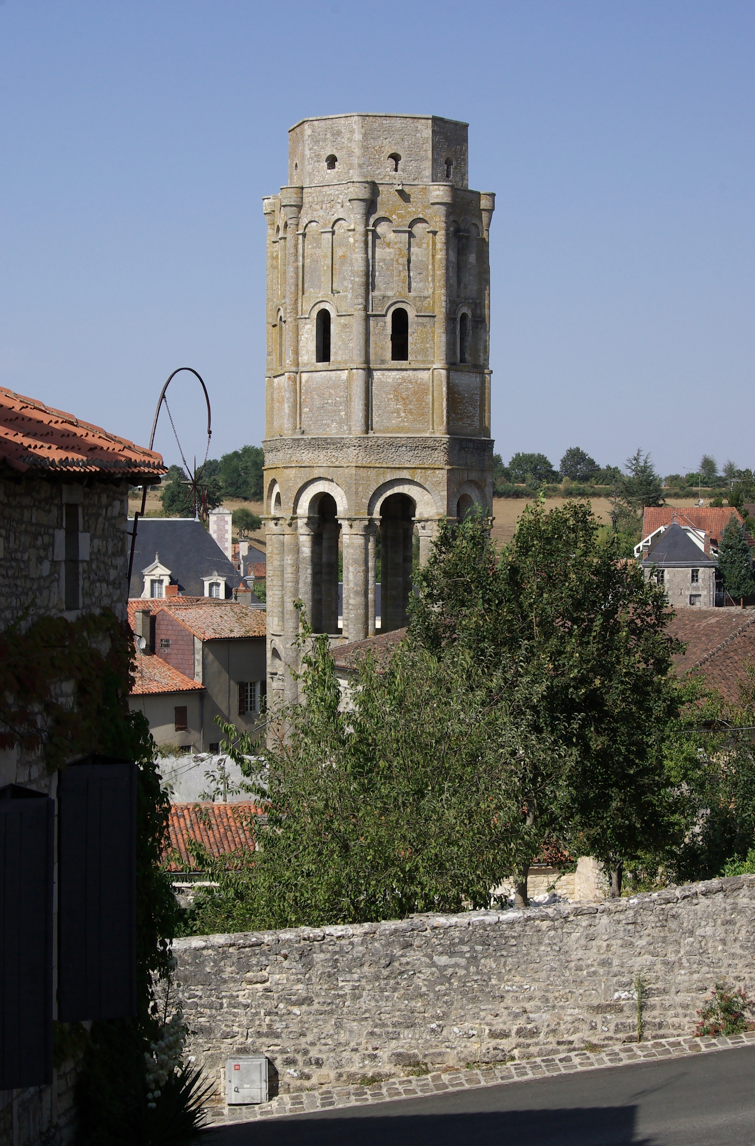 Charlemagne tower (XIth century), seen from rue de l'Église , Charroux, Vienne, France.